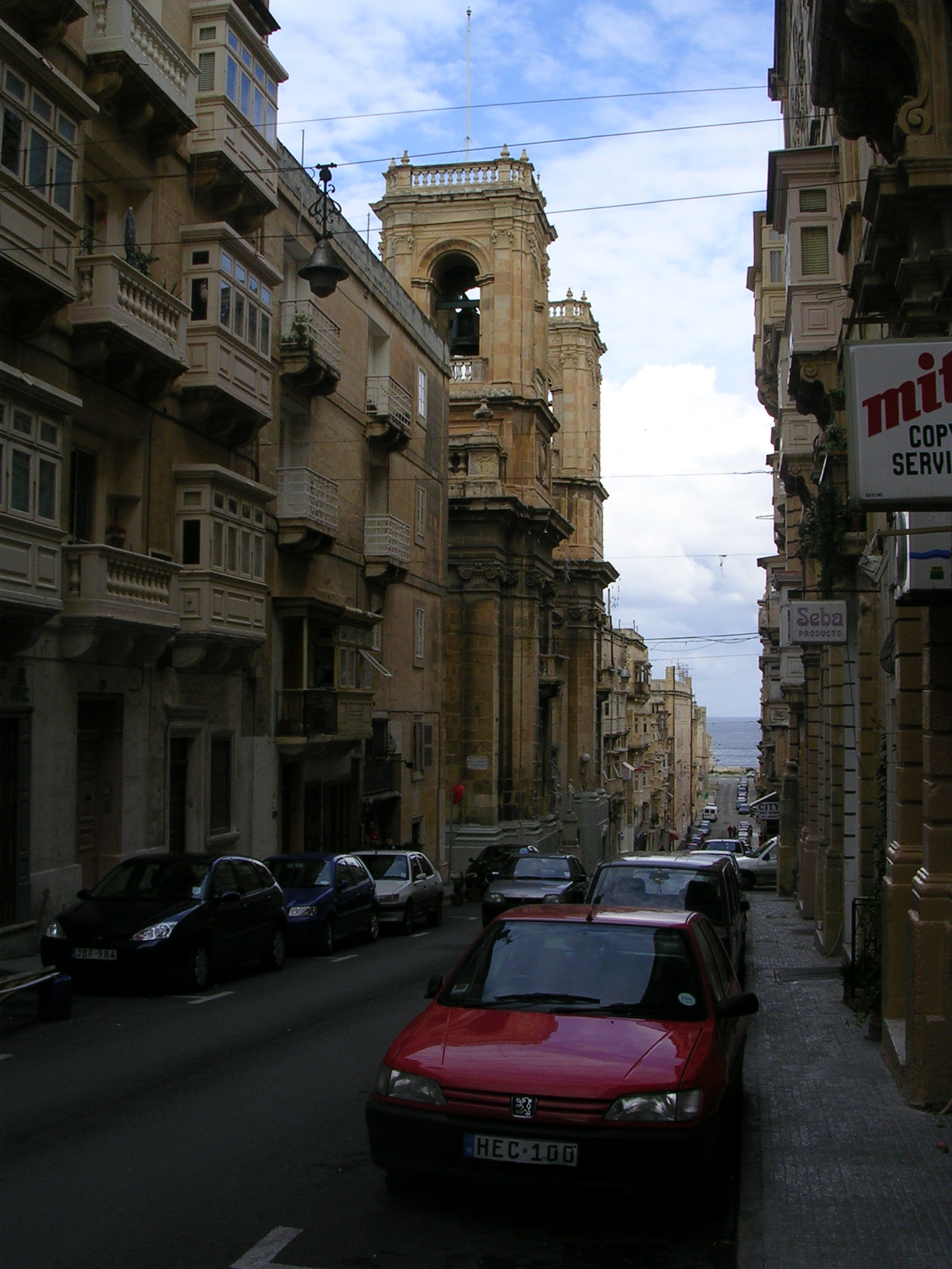 Church in Valetta. Author: Väsk Date: December 2004